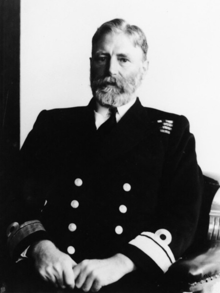 Original description by AWM: "1942. PORTRAIT OF REAR ADMIRAL SIR VICTOR CRUTCHLEY VC DSC RN, REAR ADMIRAL COMMANDING AUSTRALIAN SQUADRON, 1942-06-13 TO 1944-06-13. (NAVAL HISTORICAL COLLECTION)."